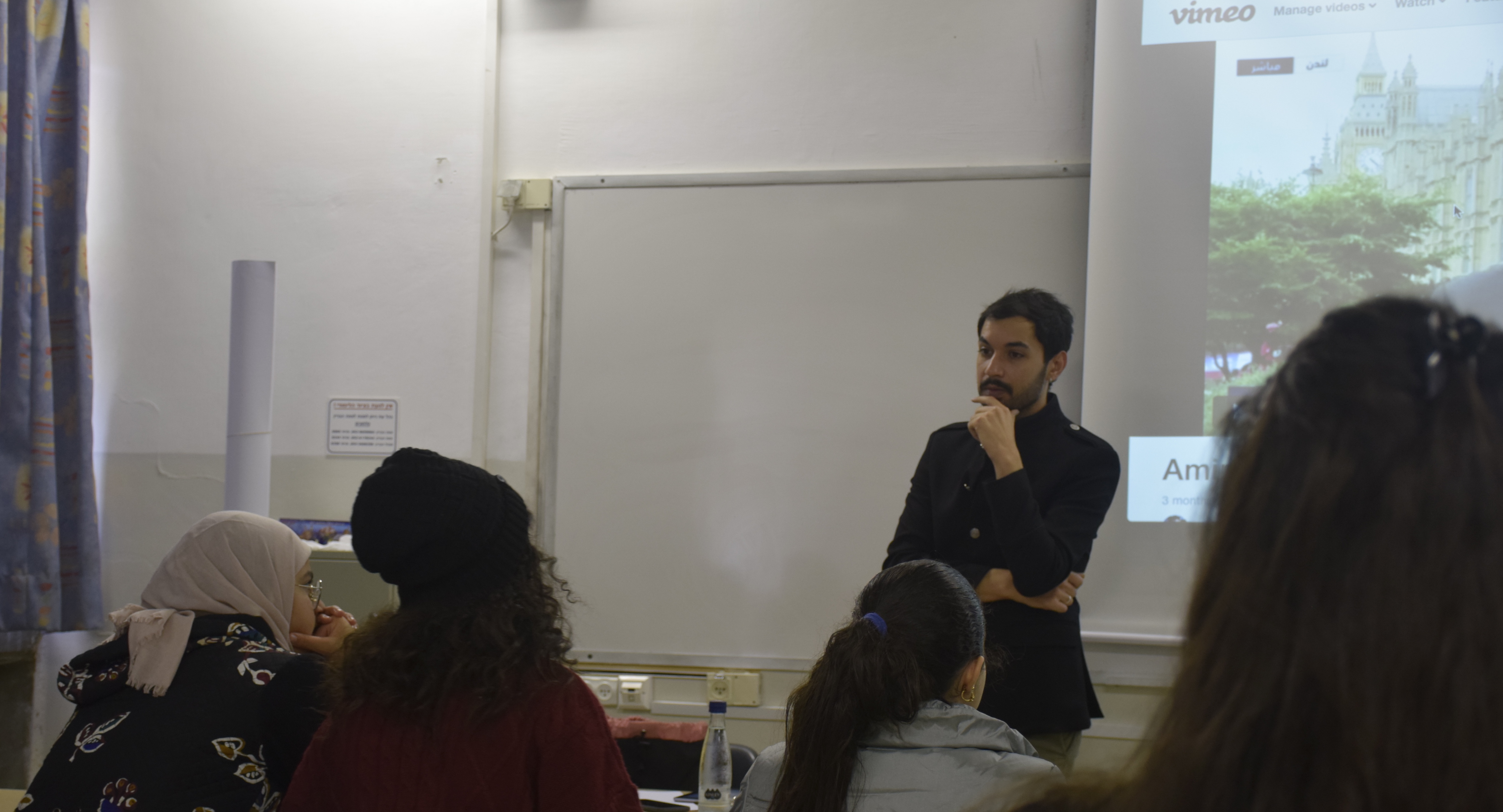 Talk by Amir Khatib addressing the Wikipedia Ambassadors attendees